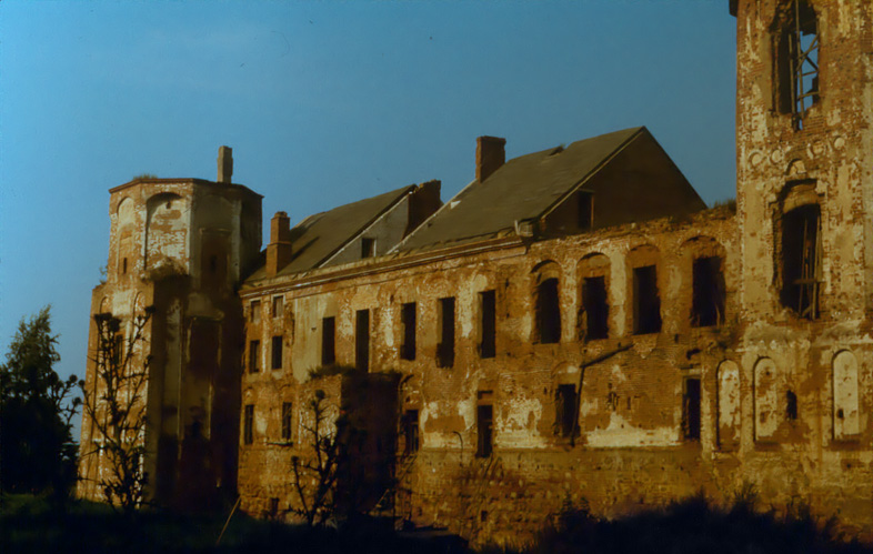 Mir Castle